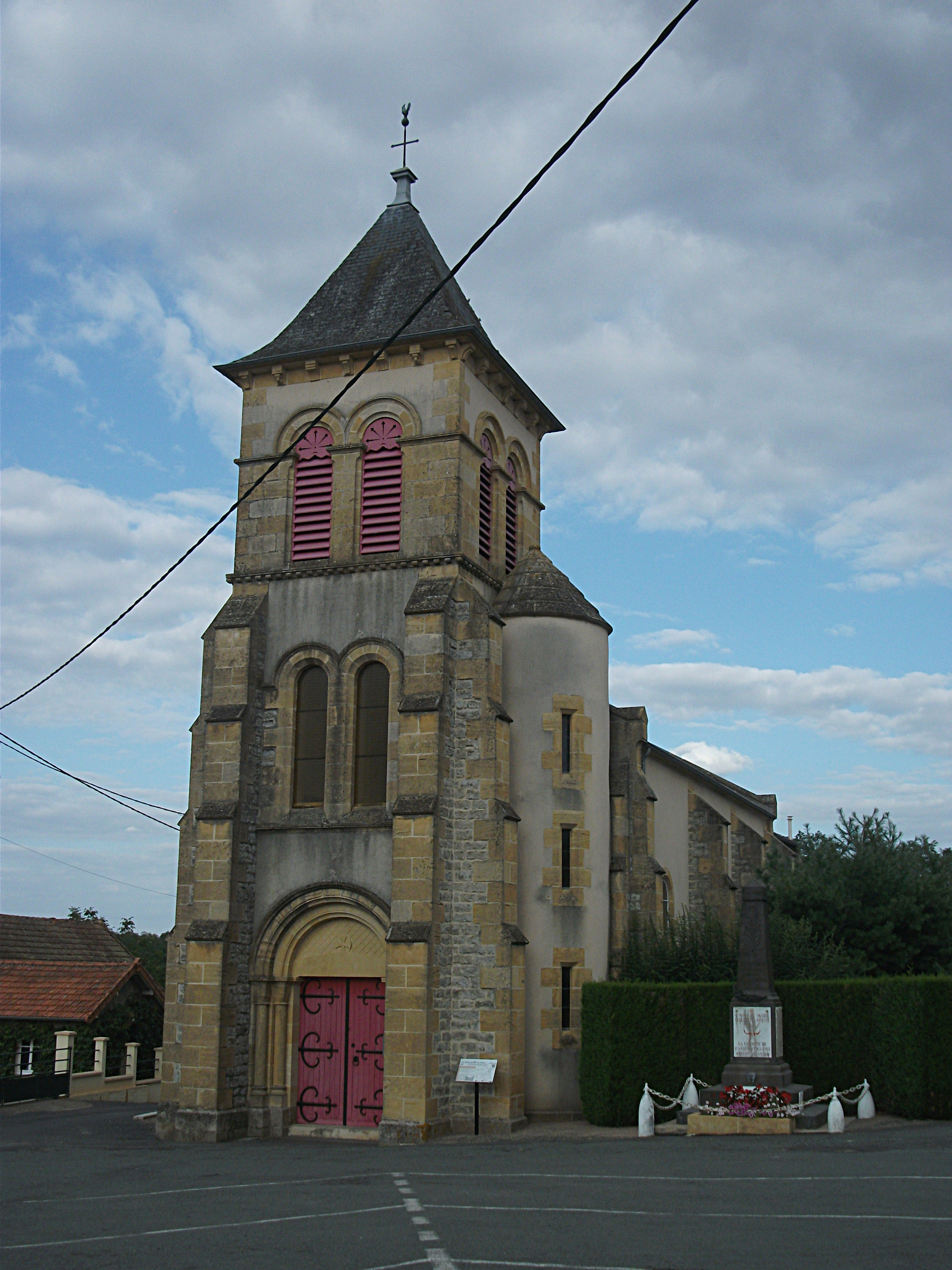 Church of Saint-Léger-sur-Vouzance, Allier, Auvergne-Rhône-Alpes, France [16896]